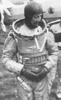 Pilot in pressure suit for Caproni Ca.161 high-altitude aircraft flight